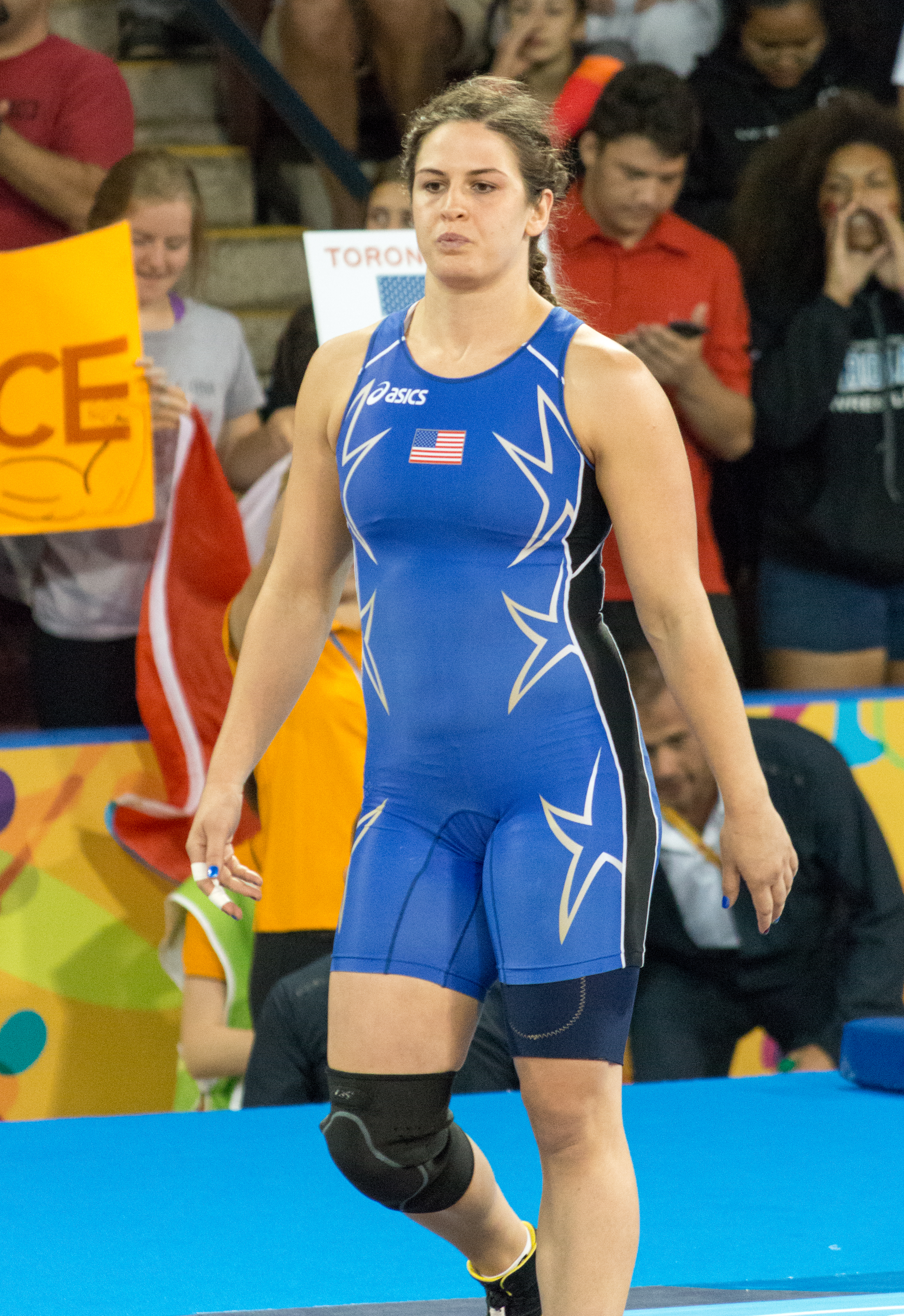 Adeline Gray entering the ring for the gold medal match in freestyle wrestling at the 2015 Pan Am Games.